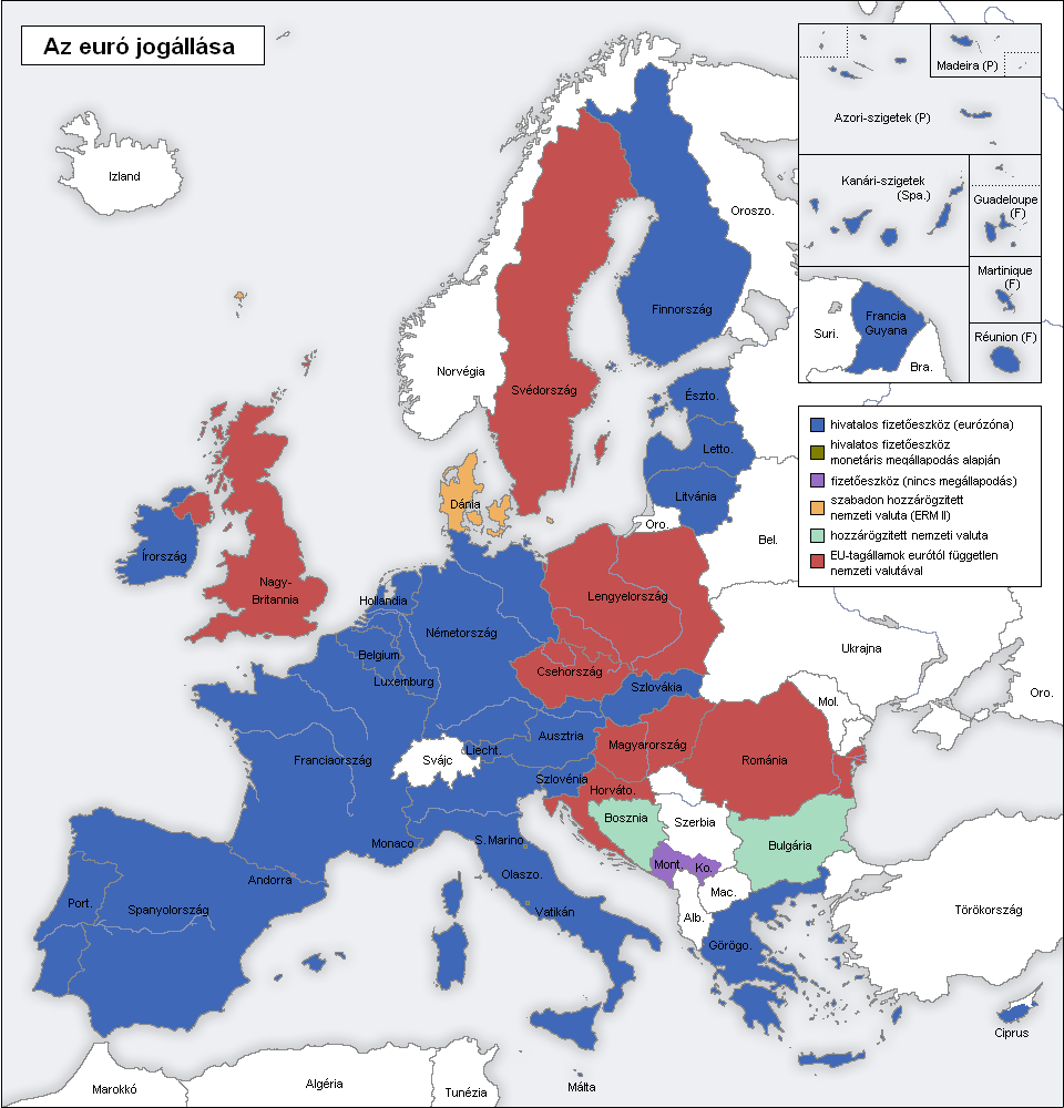 Map of Europe; blue: Eurozone, green: monetary agreement with the Union, purple: Euro as currency (outside of Eurozone), orange: ERM II, lightgreen: currency pegged to Euro, red: members of Union outside of Eurozone or ERM II; language: Hungarian